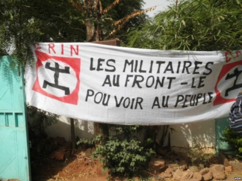 Sign at a demonstration against the coup d'etat, held on March 26 in Bamako, Mali. The sign reads, 'Military to the front lines, power to the people'.